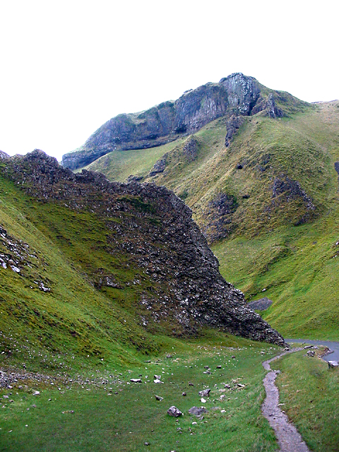 Winnats Pass